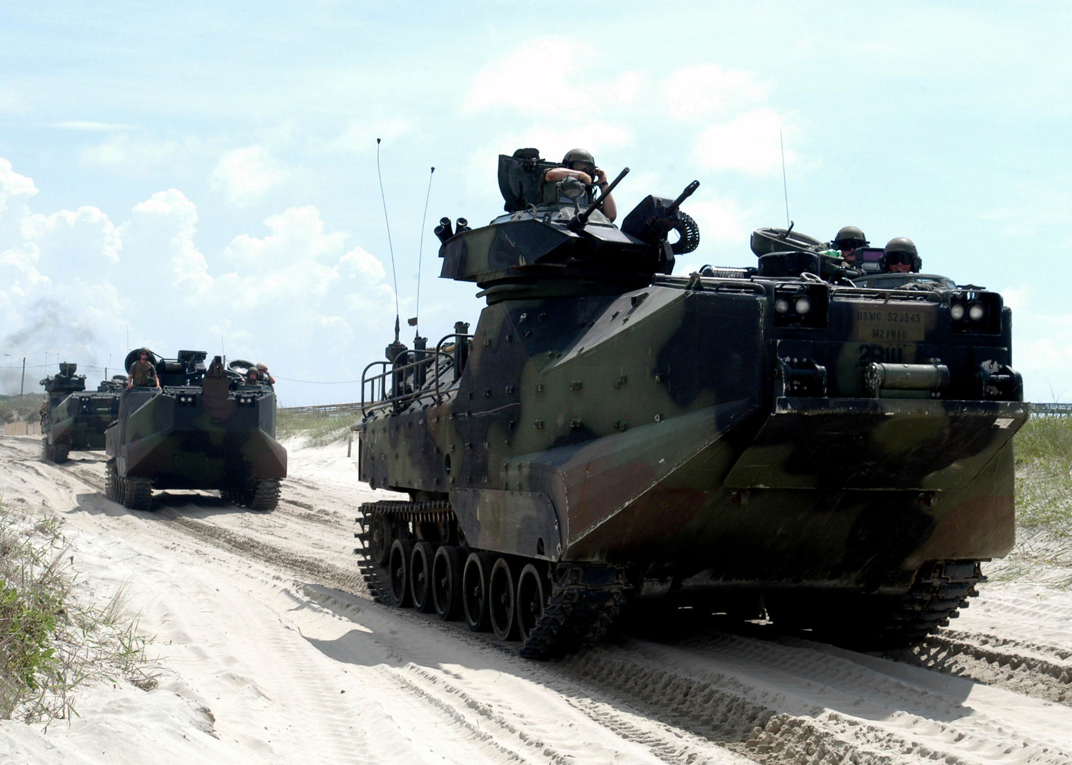 Onslow Beach, N.C. (Jun. 9, 2004) – U.S. Marines assigned to the 24th Marine Expeditionary Unit (24th MEU) make their way to Onslow Beach where Landing Craft, Air Cushions (LCAC) assigned to Assault Craft Unit Four (ACU-4) wait to transport them to the amphibious assault ship USS Kearsarge (LHD 3). Kearsarge is surged deployed to transport elements of the 24th MEU Air Combat Element to the Central Command Area of Responsibility in support of Operation Iraqi Freedom (OIF) and the Global War on Terrorism. U.S. Navy photo by Photographer’s Mate Airman Finley Williams (RELEASED)